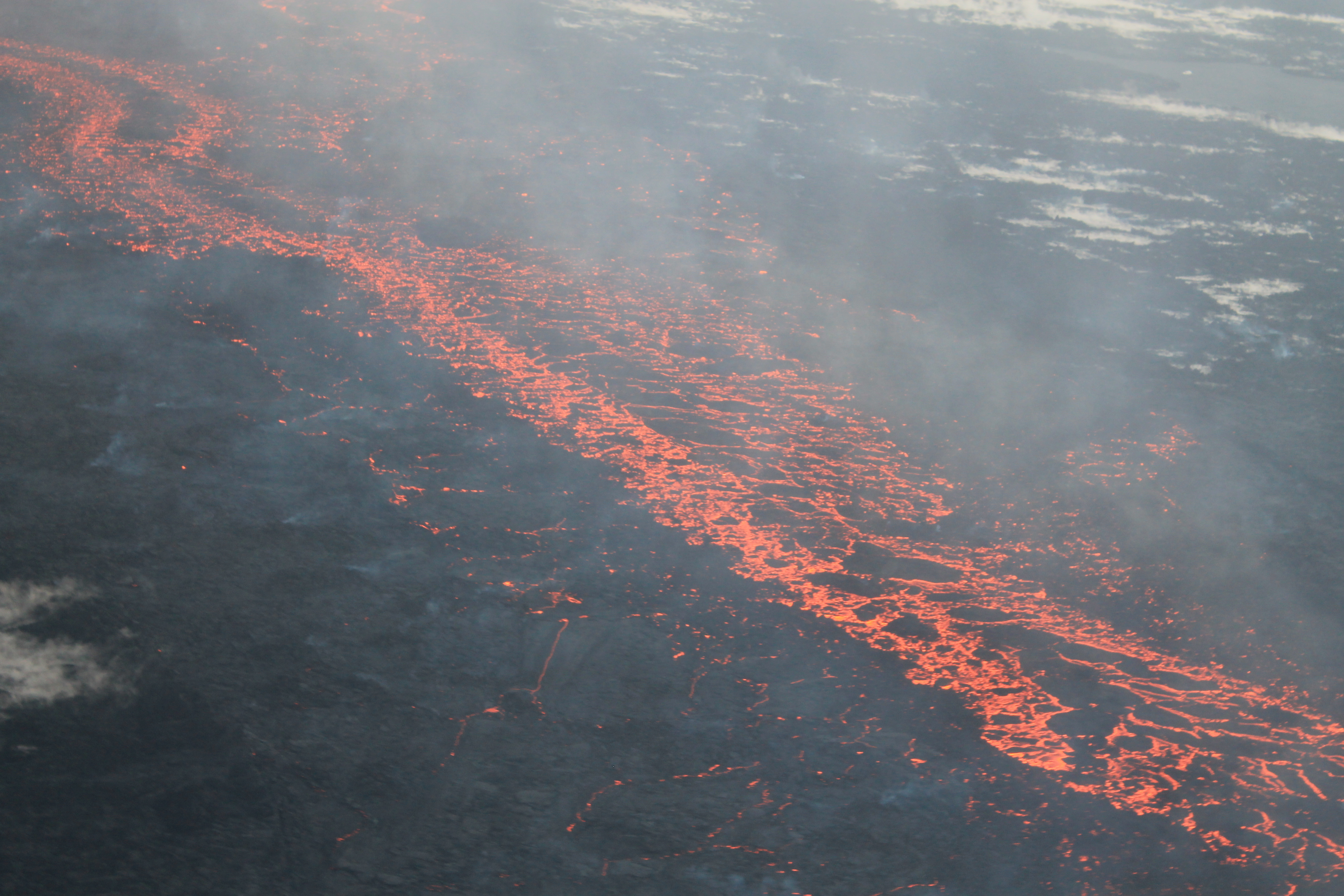 Pictures taken by Peter Hartree between 14.30 and 15.00 on September 4th 2014. I'm sorry for the less than ideal quality of these - this wasn't a professional photo shoot. All photos are unedited. I have a bunch more (fairly similar) shots - if you'd like to see them, write to . Many thanks to pilot Siggi G for the ride.